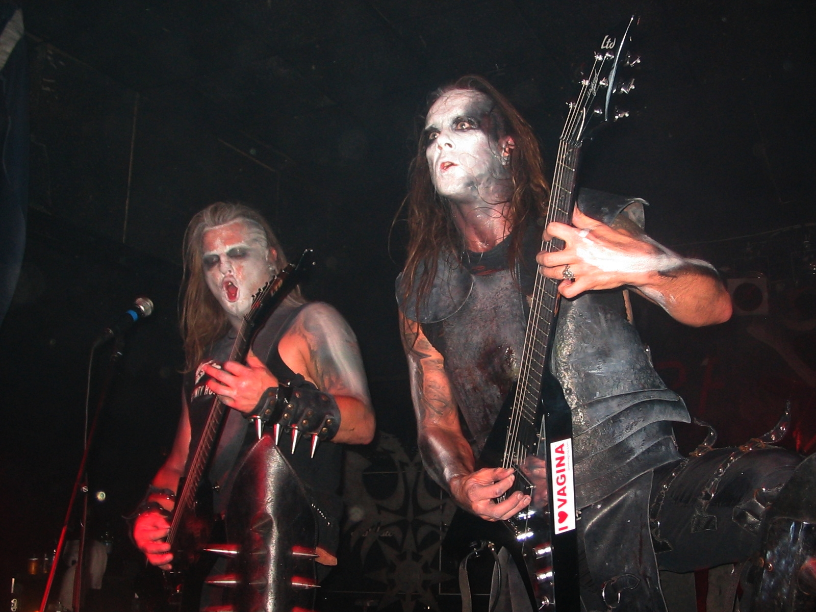 Nergal (Adam Darski) and Seth (Patryk Sztyber) of the band Behemoth live in Milan, at the Rainbow Club.